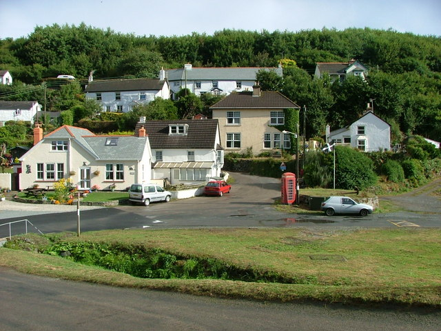 Porthoustock. An interesting coastal village, Porthoustock lies along the sides of a steep valley east of St.Keverne.